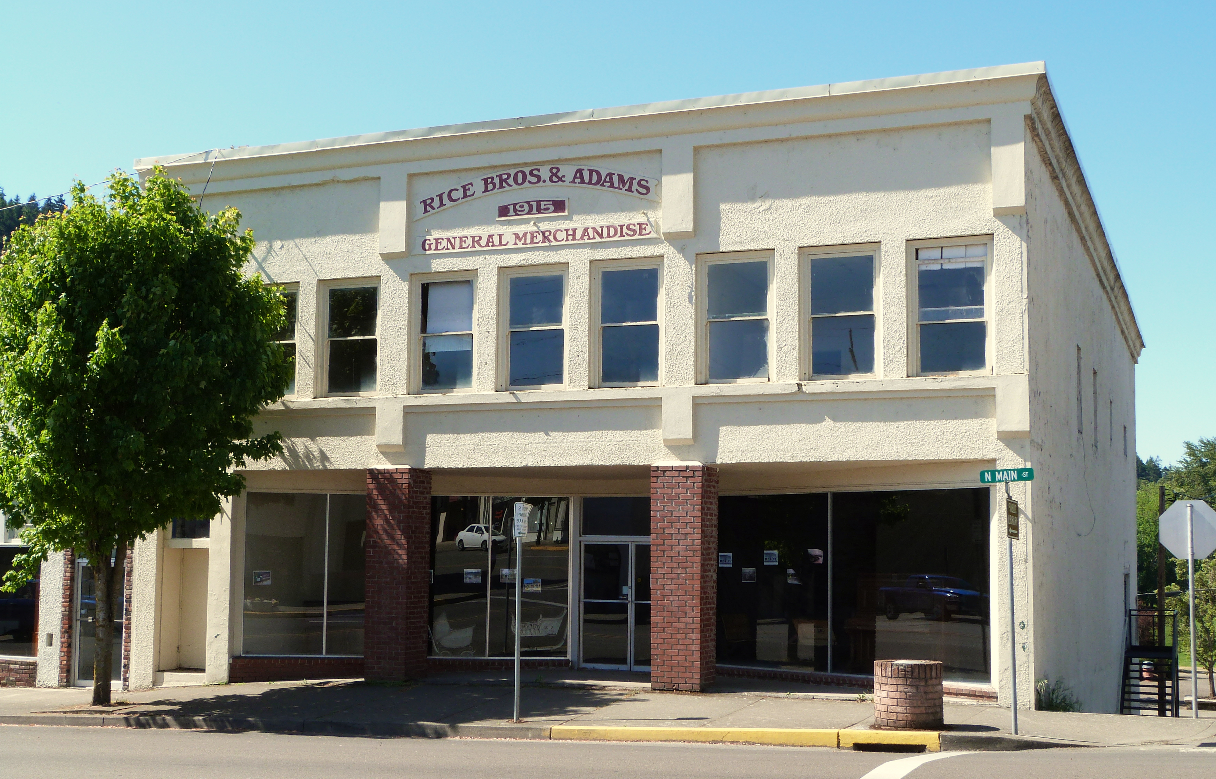 The historic Rice Brothers and Adams Building (built 1915), located at 136 North Main Street in Myrtle Creek, Oregon, United States, is listed on the US National Register of Historic Places.